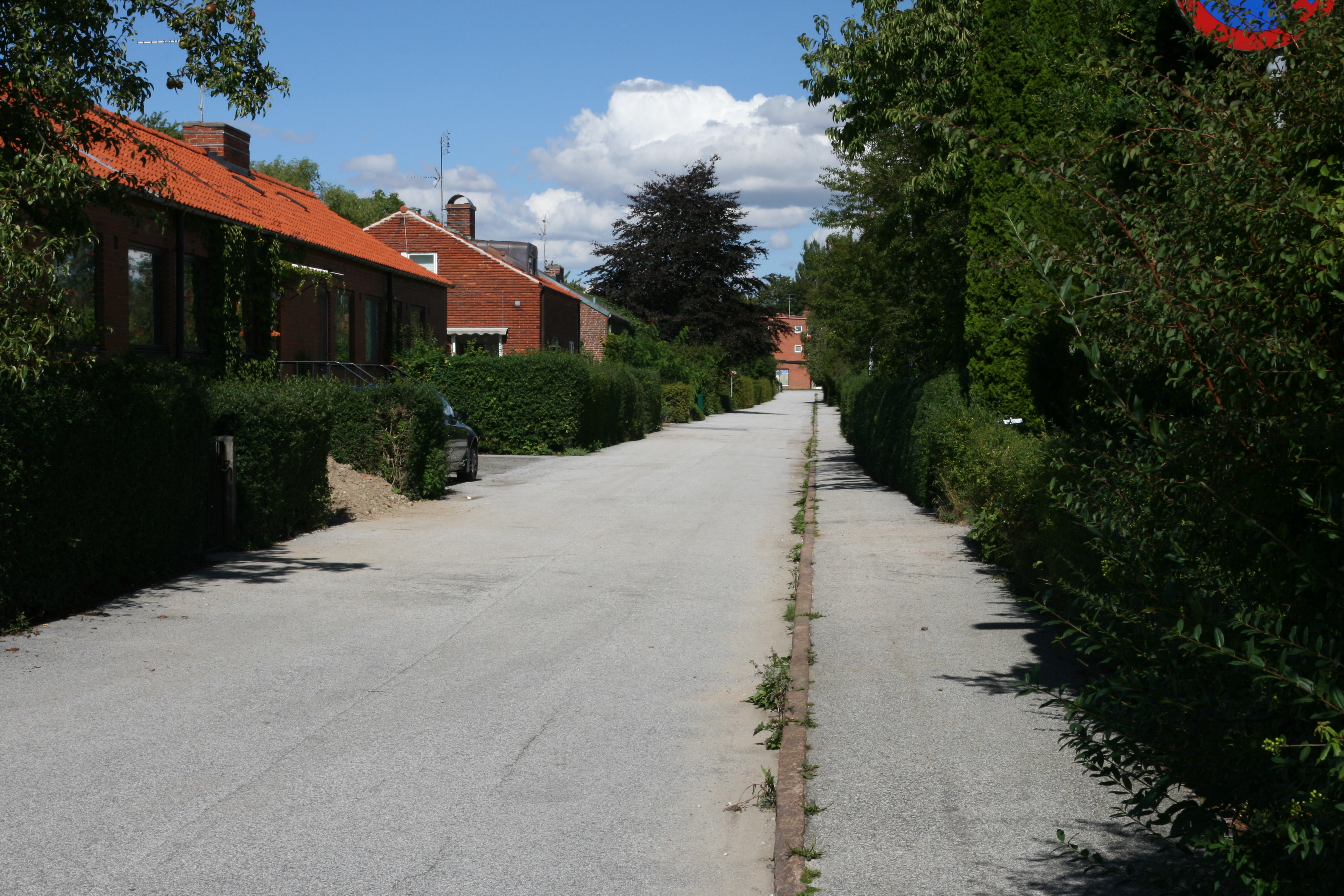 North-looking view from the south endpoint of Tegelvägen (Brick Road) in the neighbourhood of Rådmansvången in Lund, Sweden.